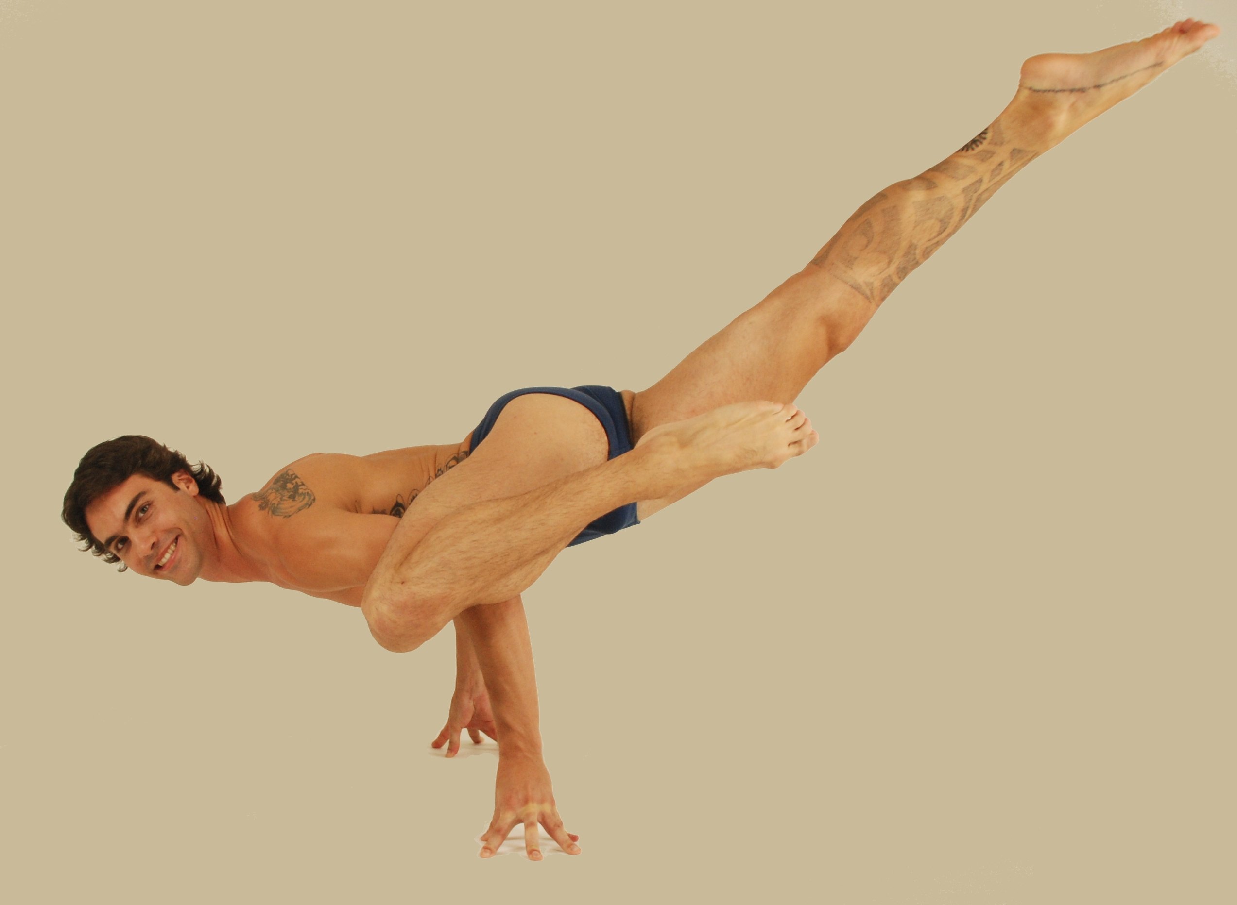 Swásthya Yôga instructor, Márcio Rossetti at utthita êkapáda kákásana An editor has doubts about the authenticity of the pose in this image. See File_talk:Marcio_kakasana_yoga.JPG